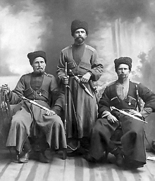 Cossacks